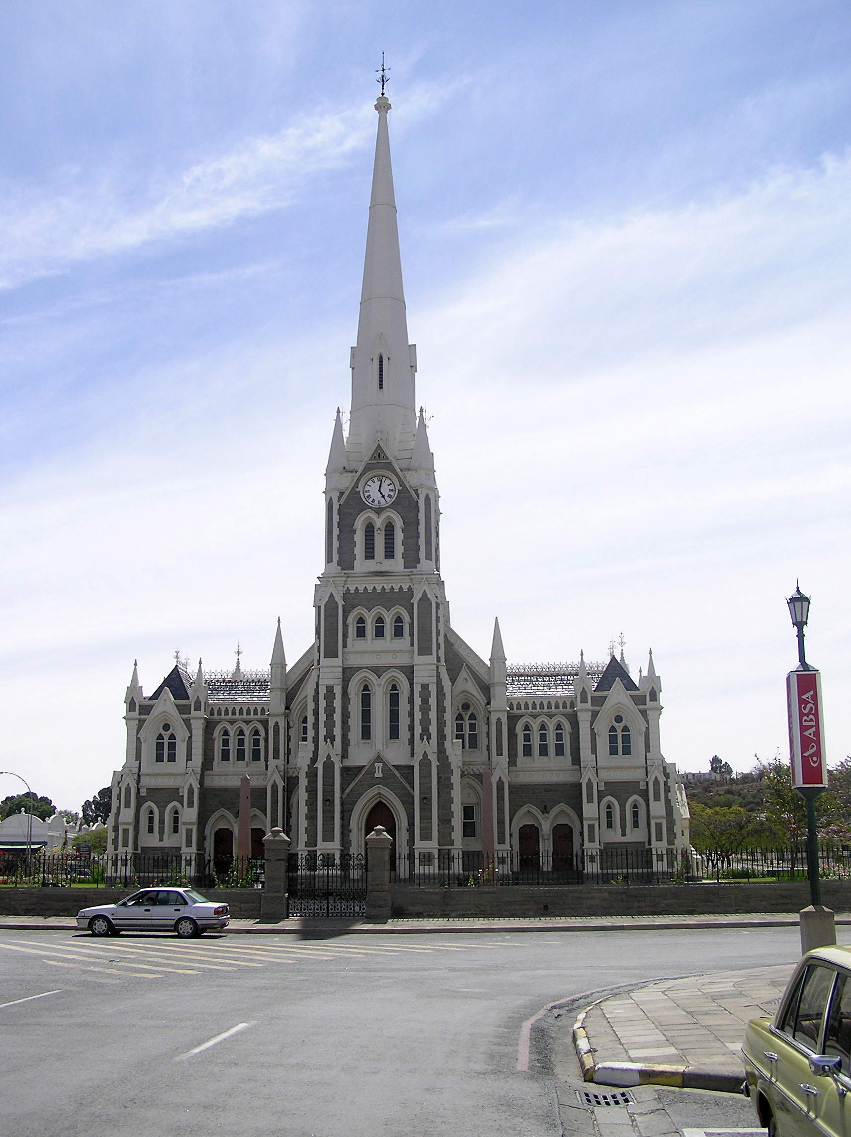 The Dutch Reformed Church (Grotekerk) in Graaff-Reinet, Local Municipality Camdeboo , District Municipality Cacadu , Province Eastern Cape , South Africa. Built from 1885-1887. Reproduction of the Salisbury Cathedral